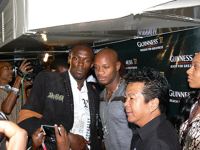 Photos from the Usain Bolt Tribute at Club Quad in Kingston Jamaica on Oct 5, 2008